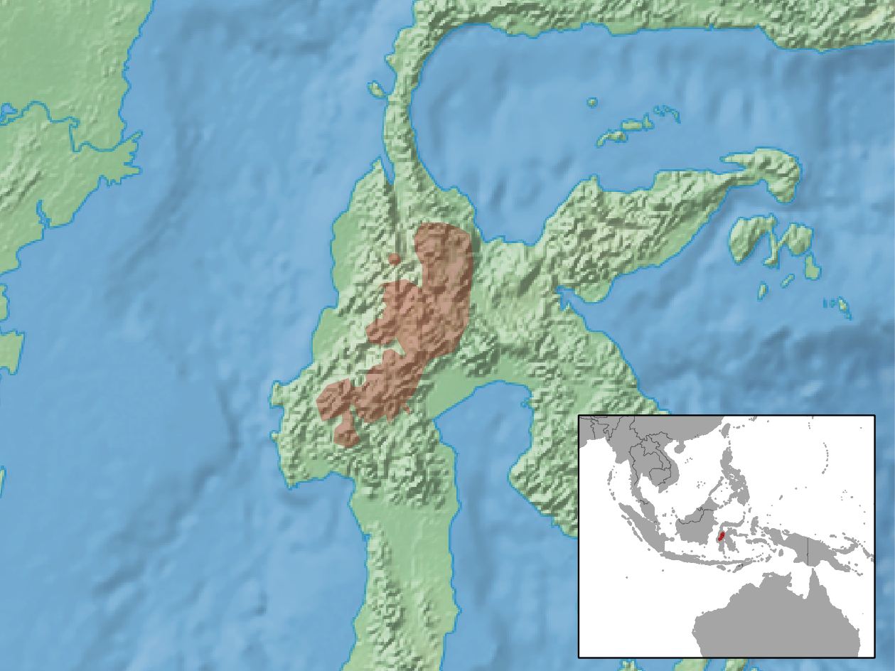 geographic distribution of Taeromys hamatus